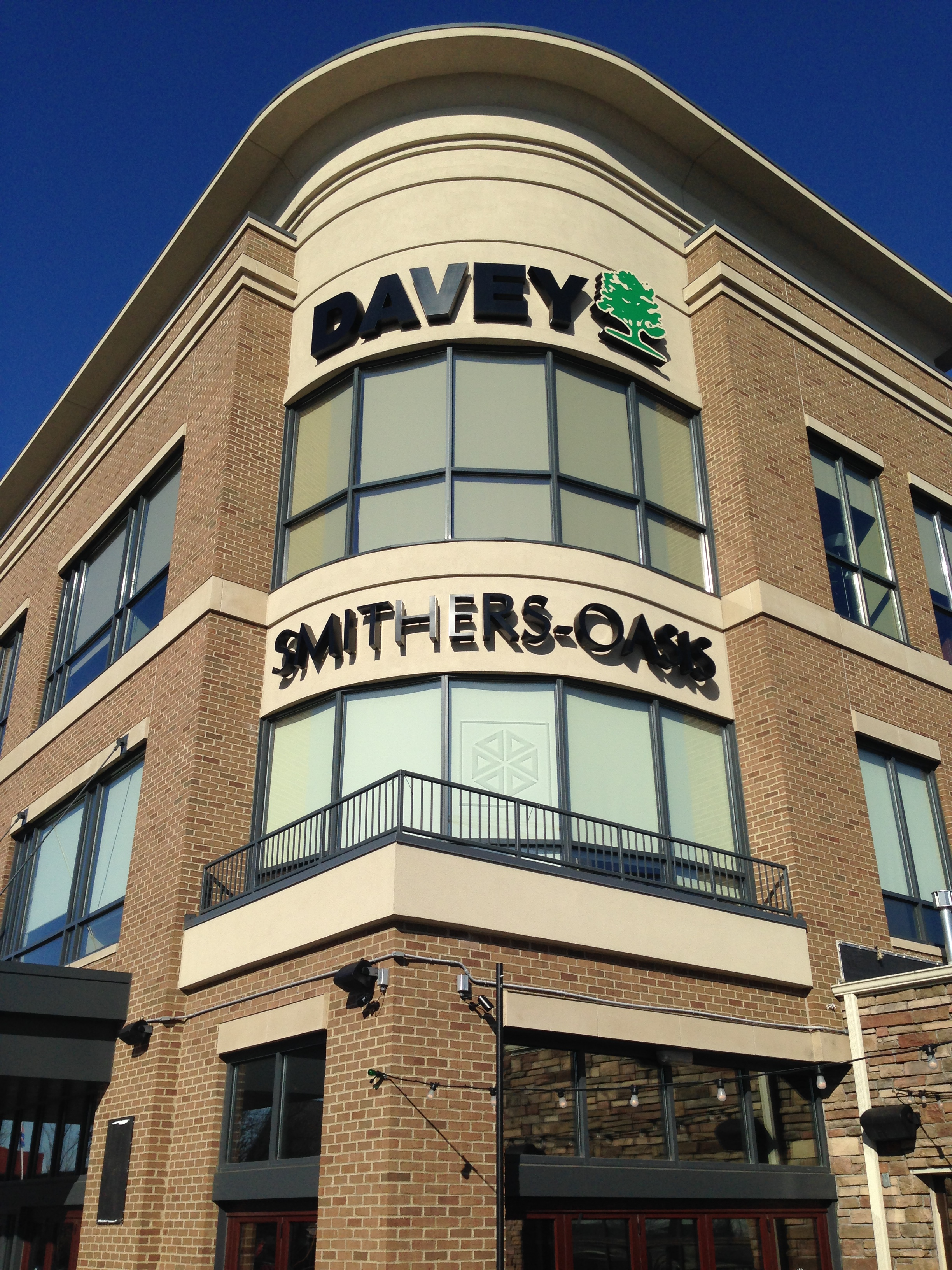 View of the business block in downtown Kent, Ohio, that houses the corporate headquarters of Smithers-Oasis and several corporate offices of Davey Tree, also headquartered in Kent.